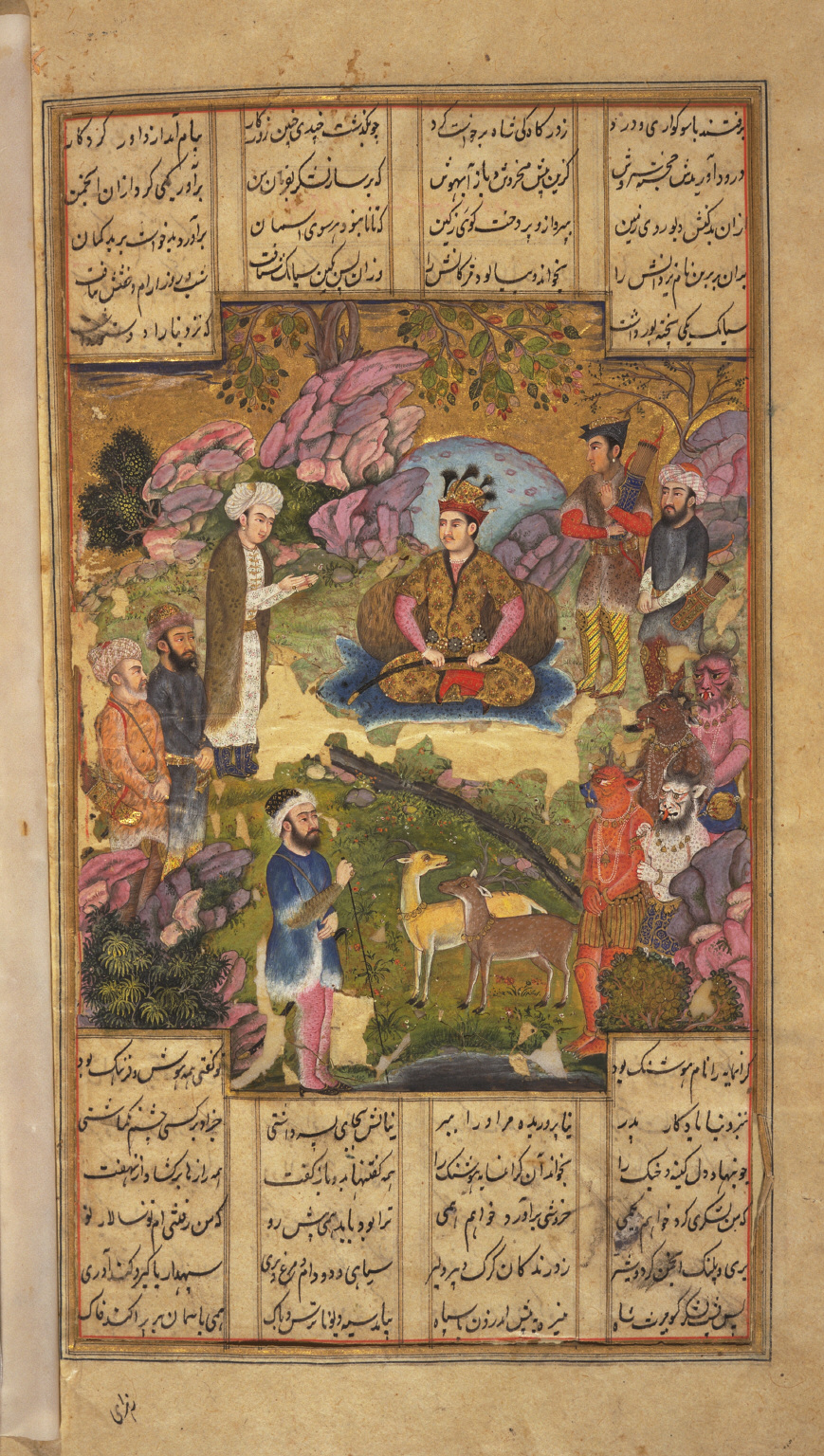 Illumination from a Shahnameh manuscript